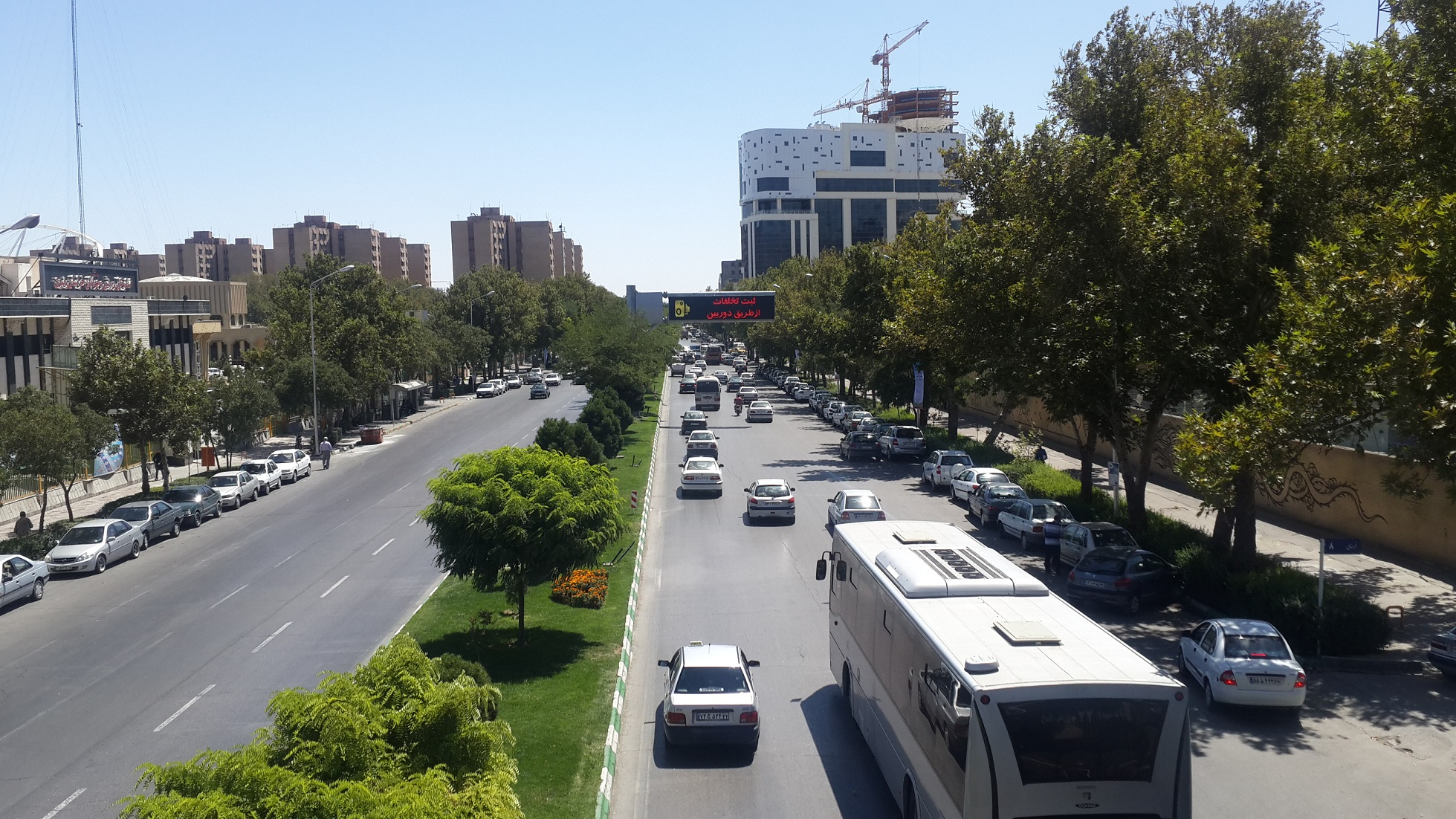 Imam Reza Stadium under construction